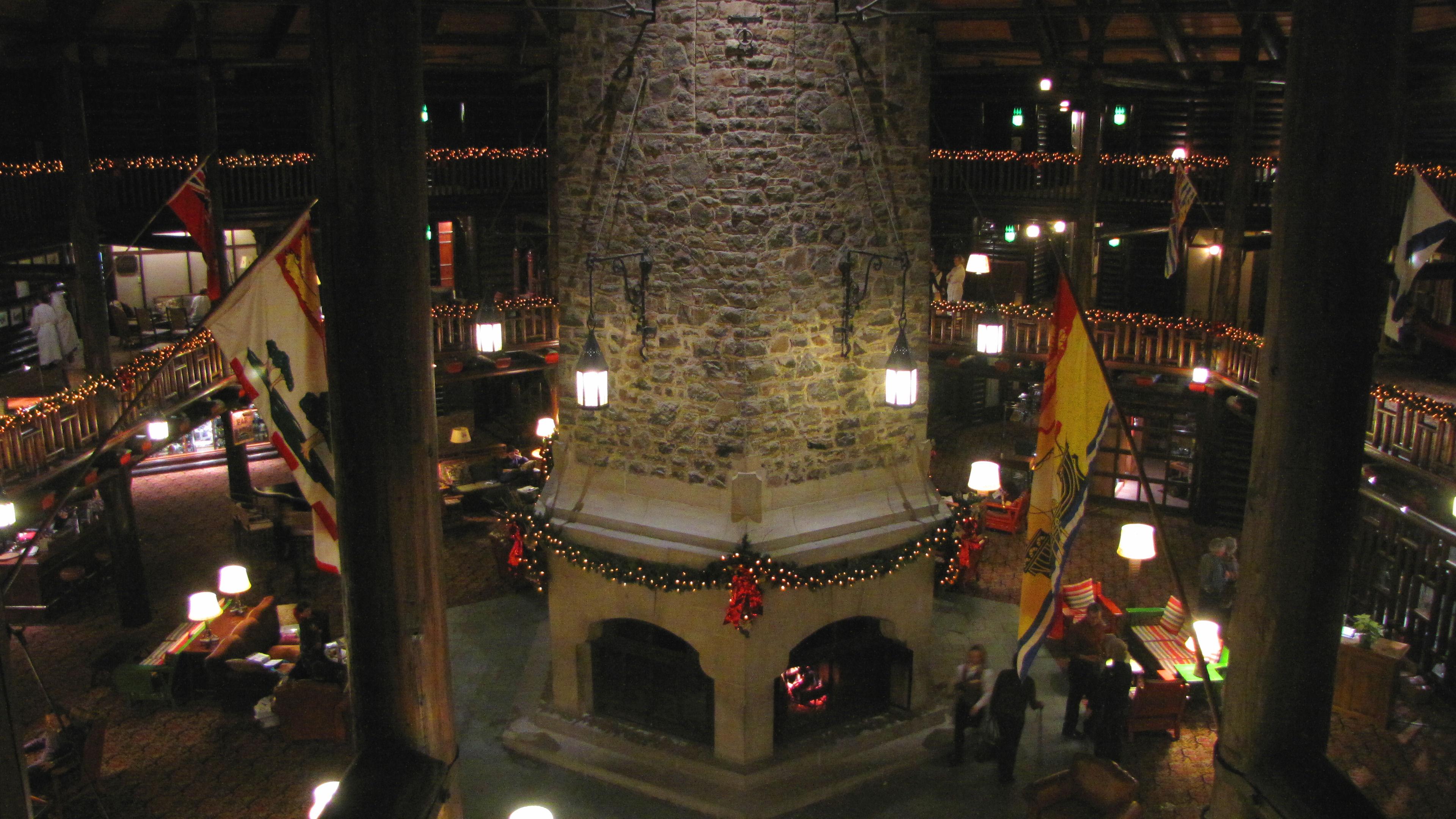 Le Chateau Montebello's six-sided fireplace, Montebello, Quebec, Canada